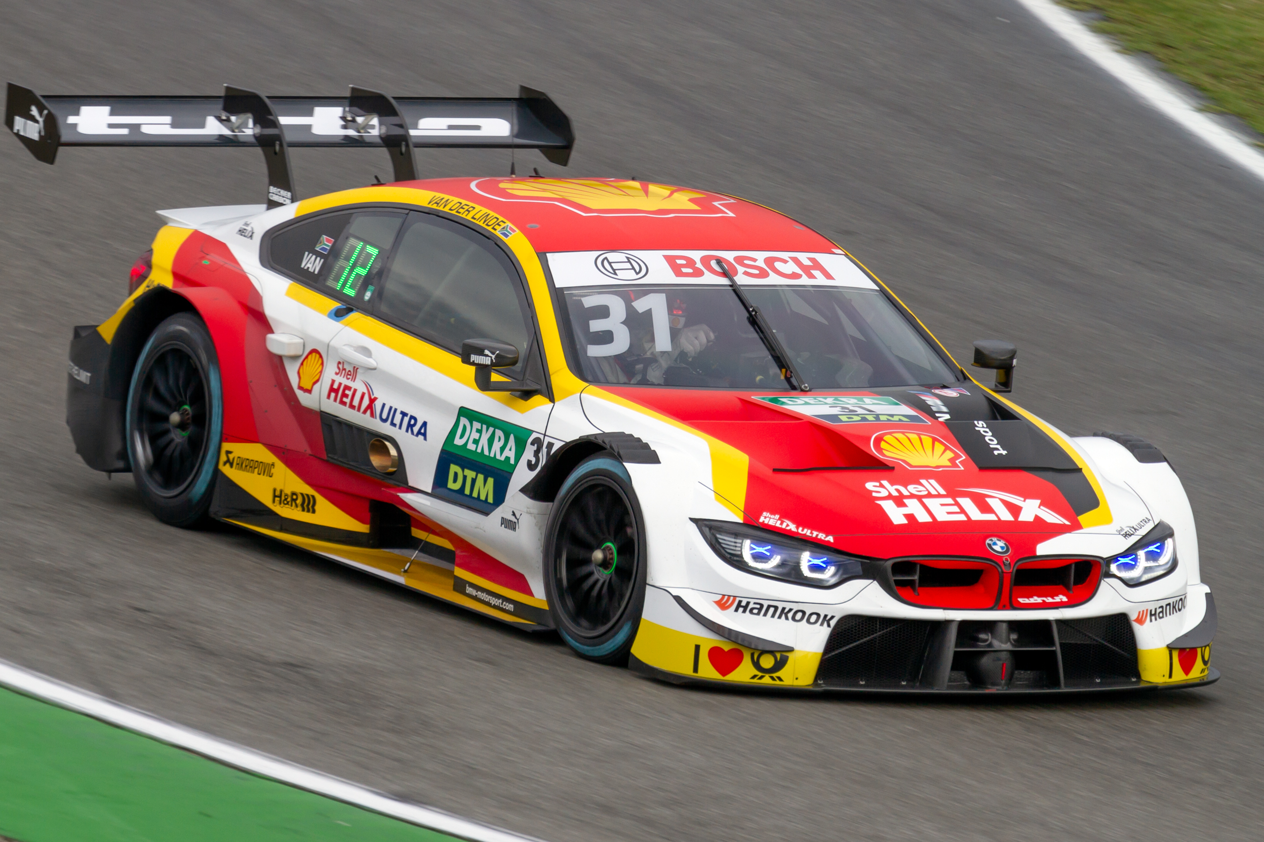 2019 DTM Hockenheimring (May): BMW M4 Turbo DTM of Sheldon van der Linde